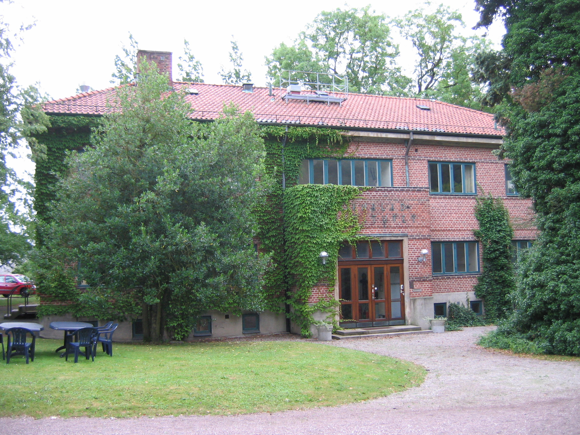 Tornbladinstitutet, a scientific institute for comparative embryology at Lund University, founded in 1934.